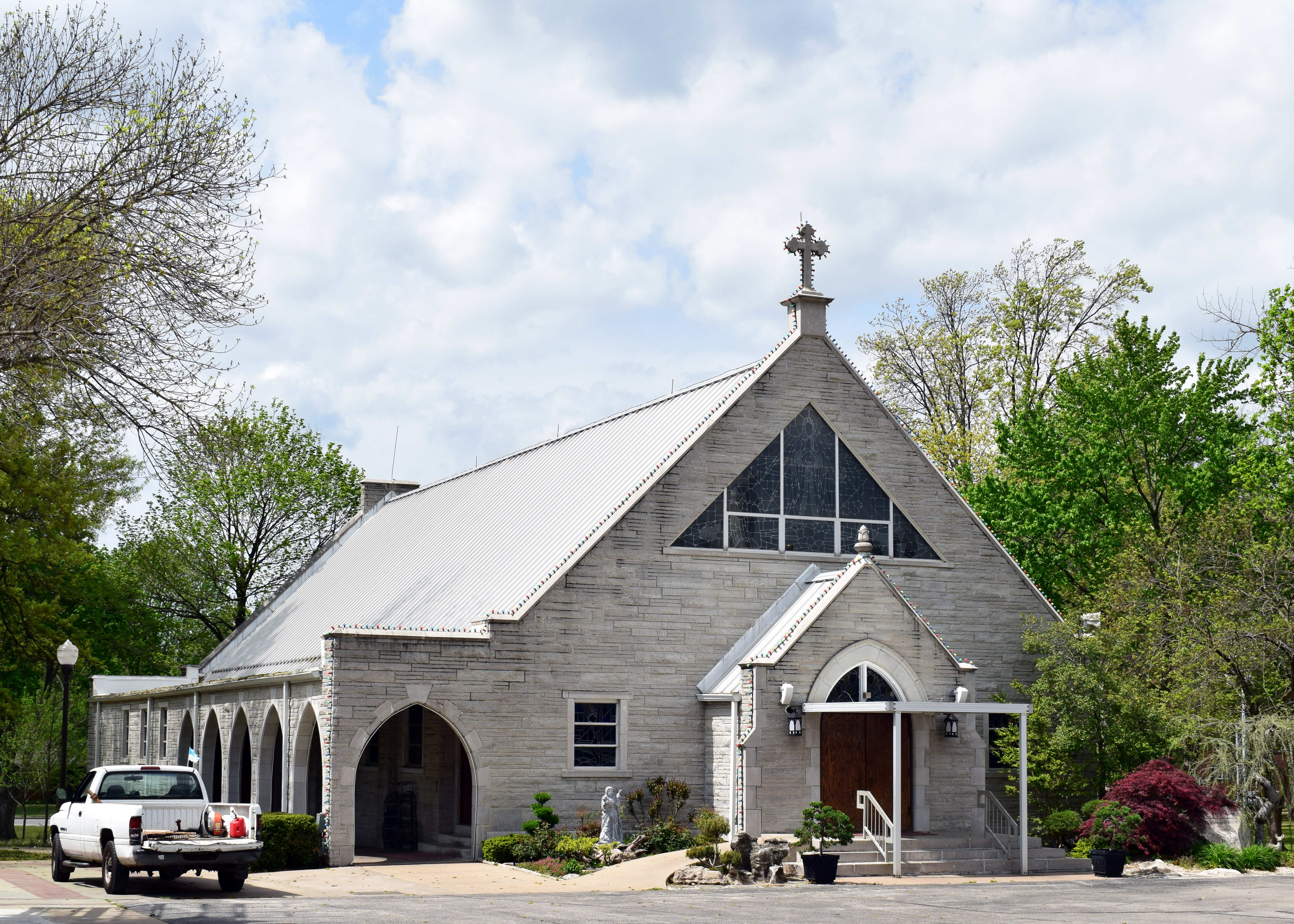 Shrine of the Immaculate Heart of Mary (Cathage, MO) - exterior